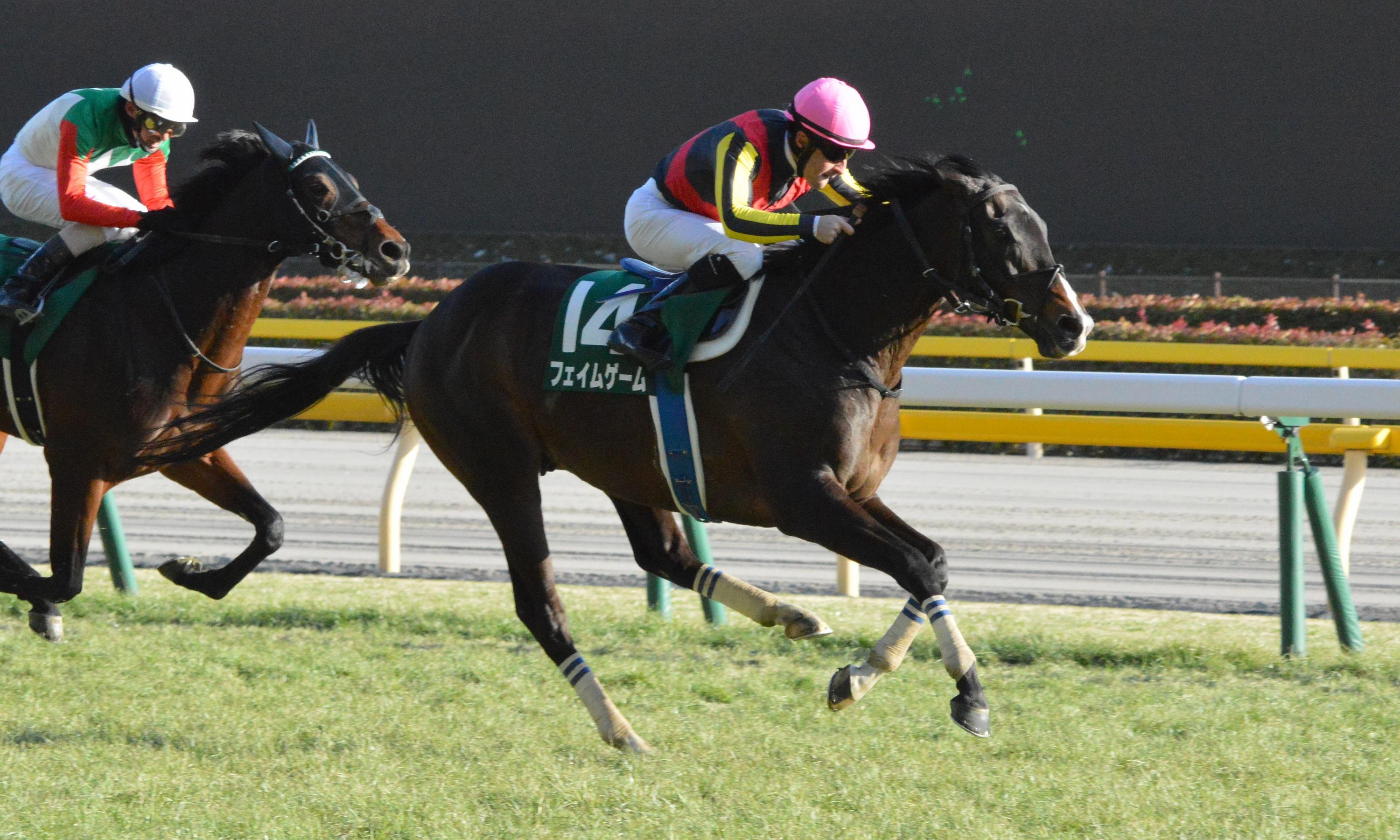 Japanese race horse Fame Game at Tokyo racecourse. Tokyo (JPN) 17 Feb 2018Diamond Stakes (Grade 3 Handicap) (4yo+) (Turf) 2m1f Firm RankHorse NameOddsAgeWgtJockeyTrainer1stFame Game (JPN)17/10FG89-3Christophe-Patrice LemaireYoshitada Munakata2ndRidge Man (JPN)13/2H58-3Masayoshi EbinaYasushi ShonoOthers are omitted. (14 horses entered in a race.)